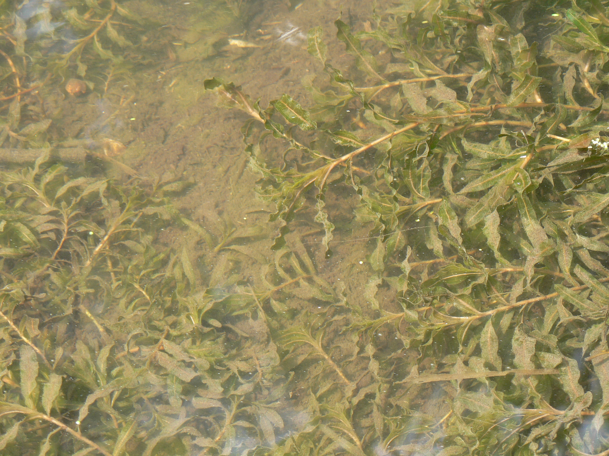 Curly pondweed Potamogeton crispus in a silty stream in southern Britain